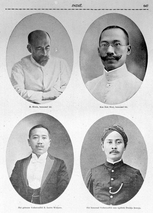 Repronegative. Members of the Volksraad (People's Council) of the Dutch East Indies in 1918: D. Birnie (appointed), Kan Hok Hoei (appointed), R. Sastro Widjono (elected) and mas ngabèhi Dwidjo Sewojo (appointed).